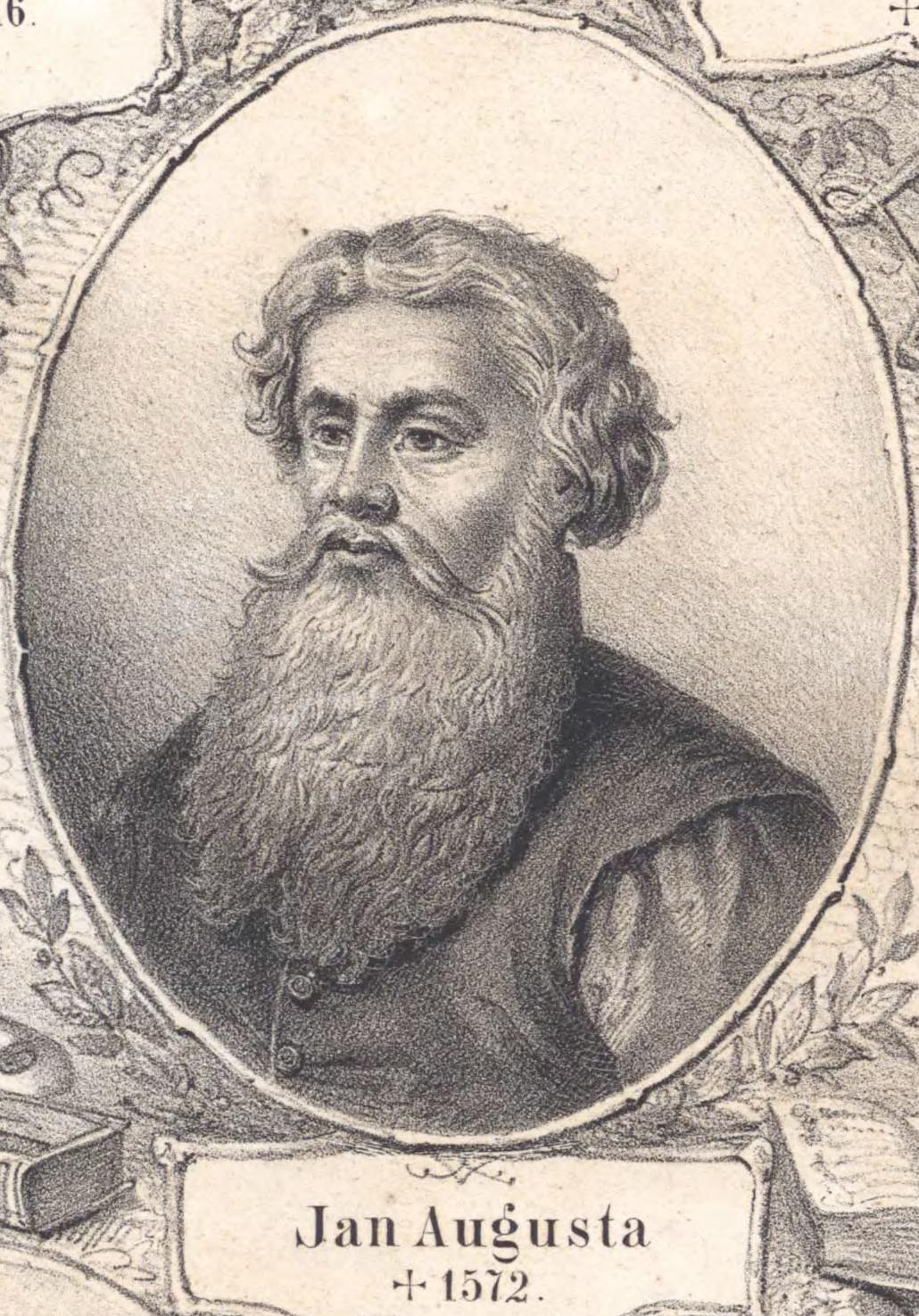 Portrait of Jan Augusta (1500 - 1572), bishop of Bohemian Brethren (Jednota bratrska).